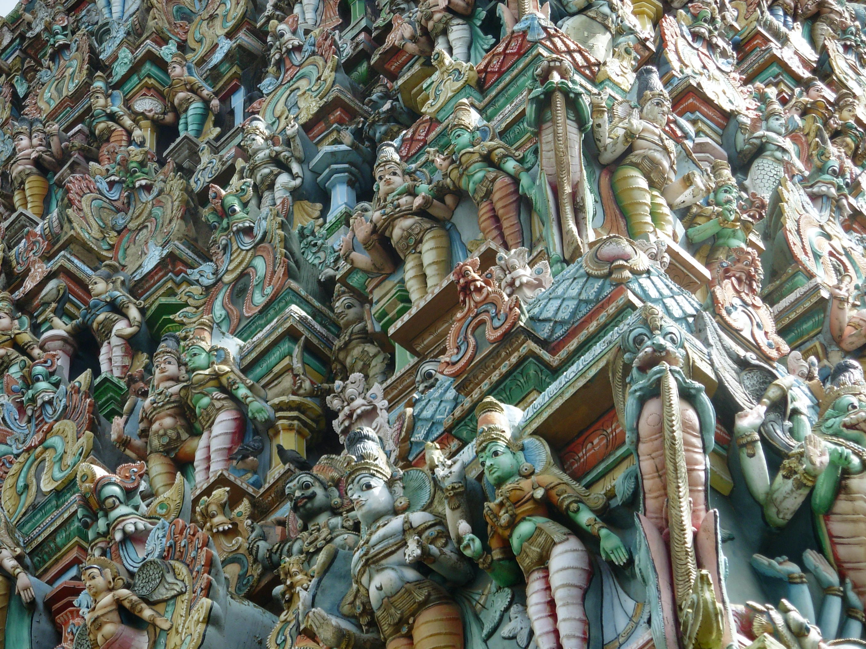 Sculptures at one of the gopurams of the Madurai Meenakshi temple